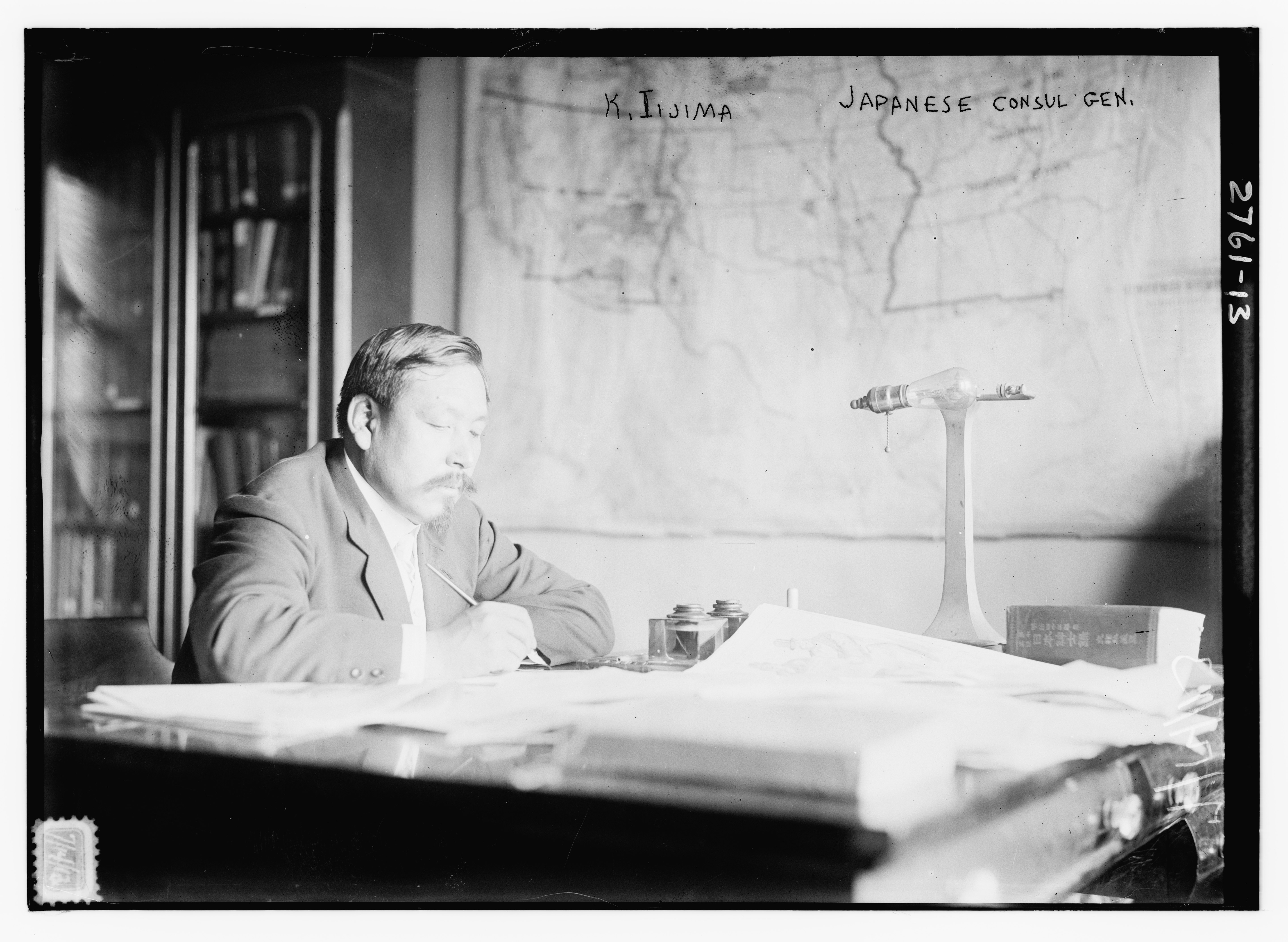 Title: K. Iijima, Japanese Consul Gen[eral] Abstract/medium: 1 negative : glass ; 5 x 7 in. or smaller.